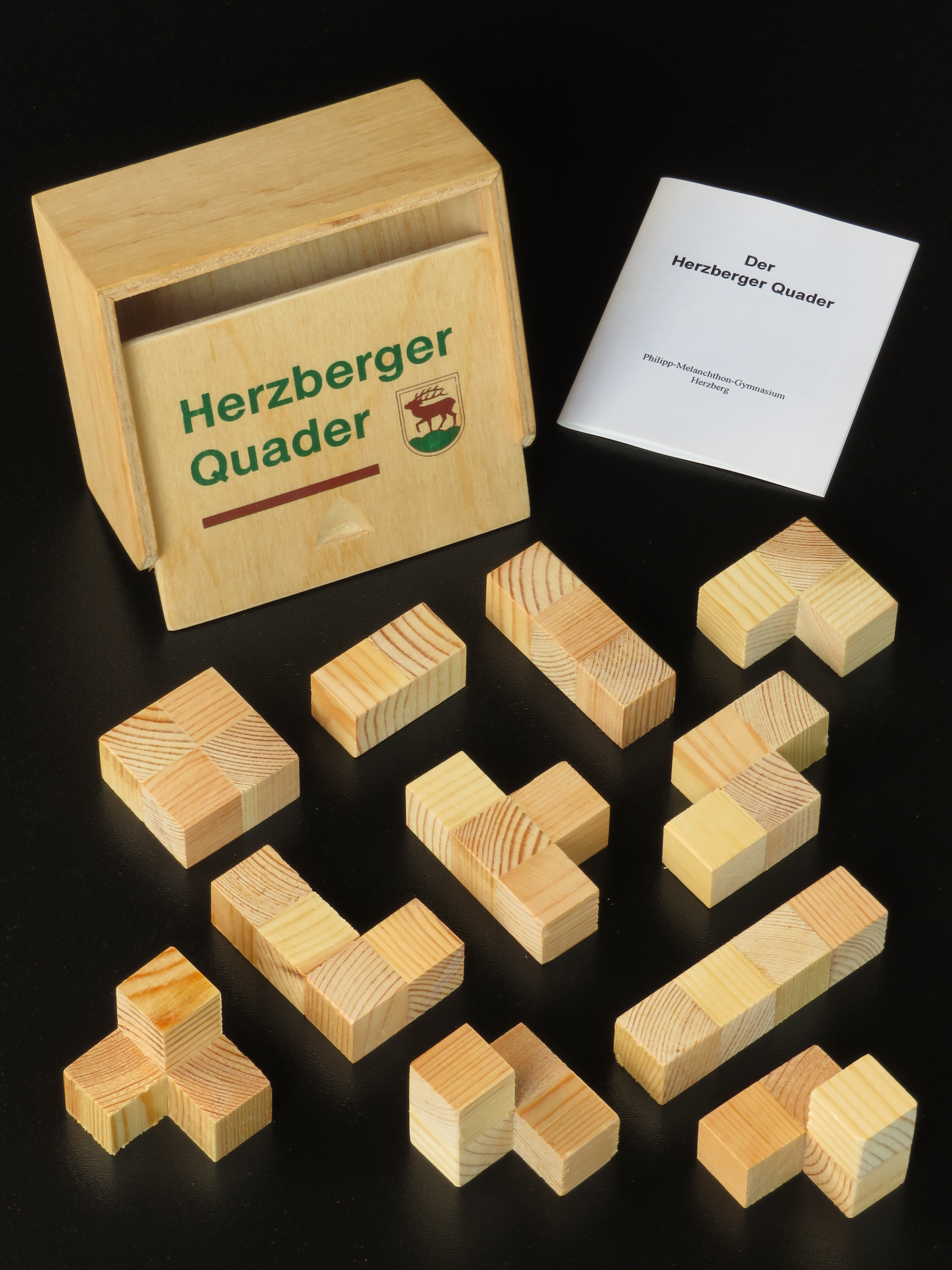 Herzberg quboid